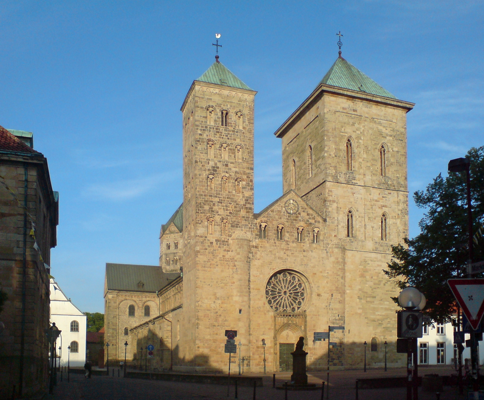 St. Peter's Cathedral (Osnabrück)